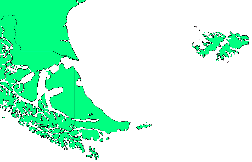 Graphic about main details of argentine continental coast (Patagonia), the Argentine province of Tierra del Fuego in the south and the Falkland islands